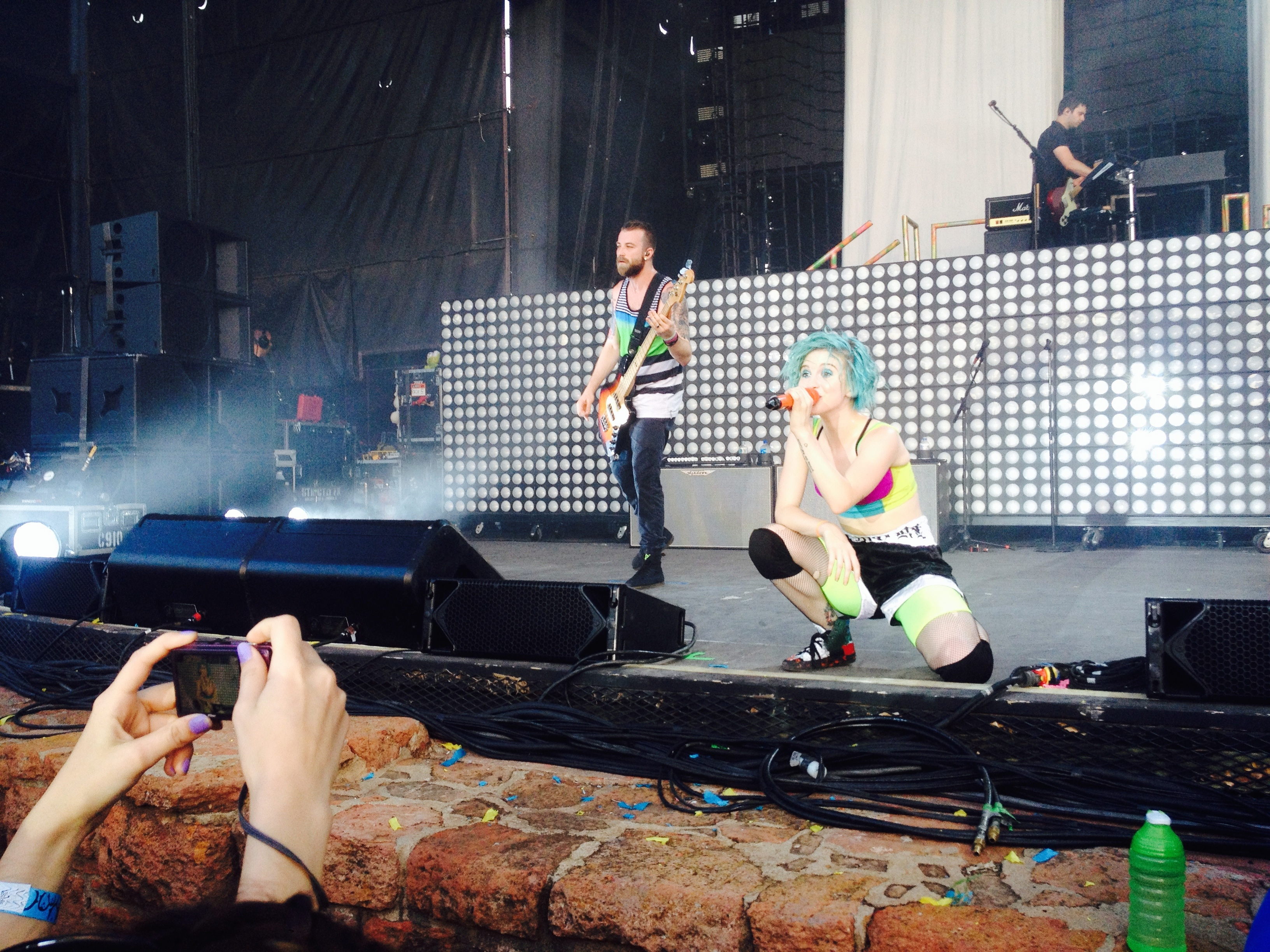 Paramore live in concert in Oklahoma City during Monumentour; singer Hayley Williams to the right, bassist Jeremy Davis to the left